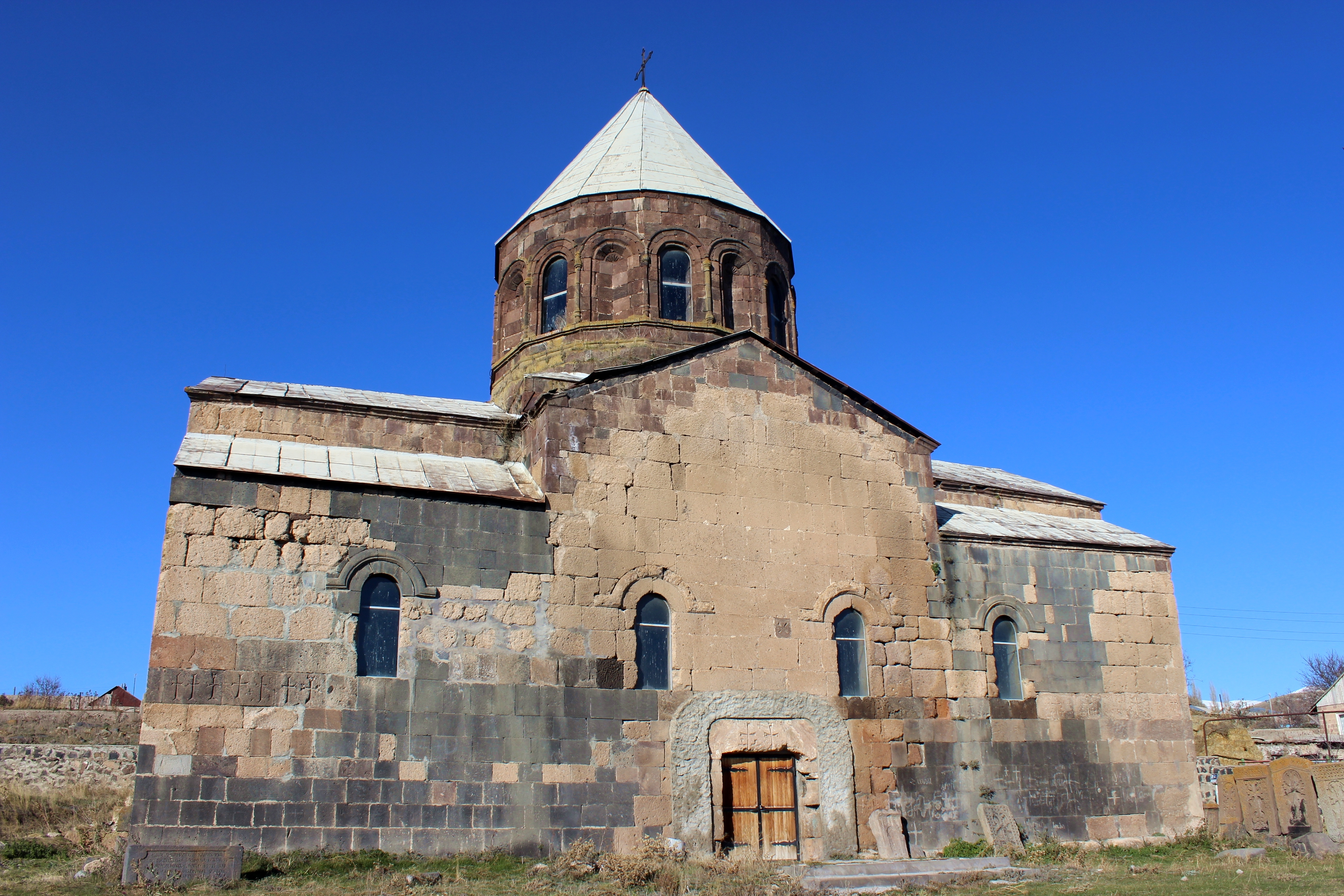 Ddmashen Saint Thaddeus the Apostle Church, Ddmashen, Gegharkunik Province, Armenia. 35/1